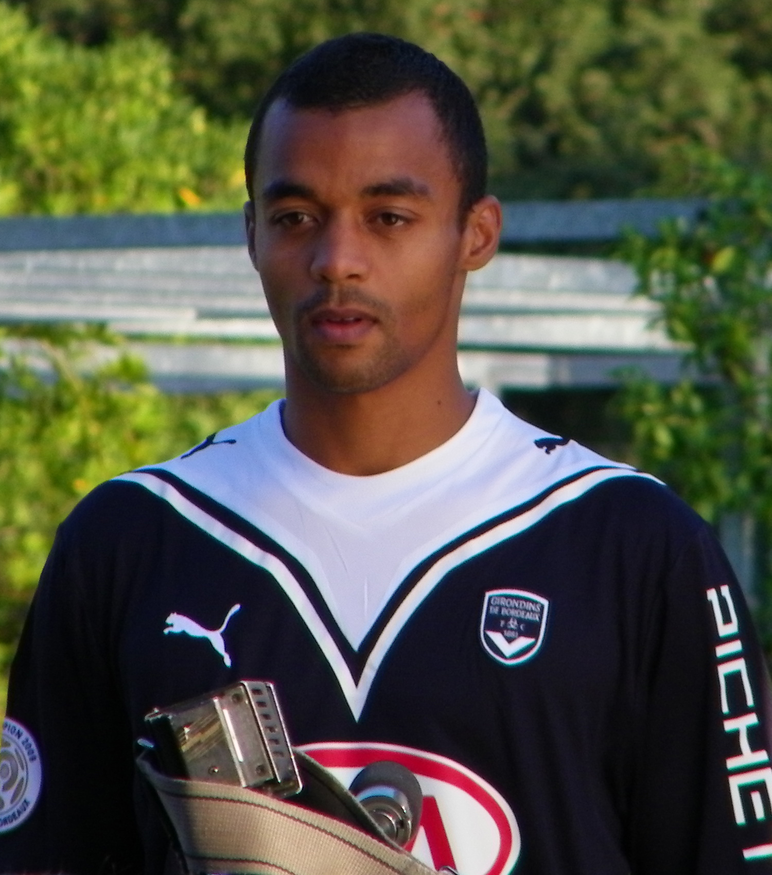 David Bellion, player at FC Girondins Bordeaux. Taken by Valentin Trijoulet. Public domain.